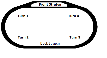 Mapa do Texas Motor Speedway